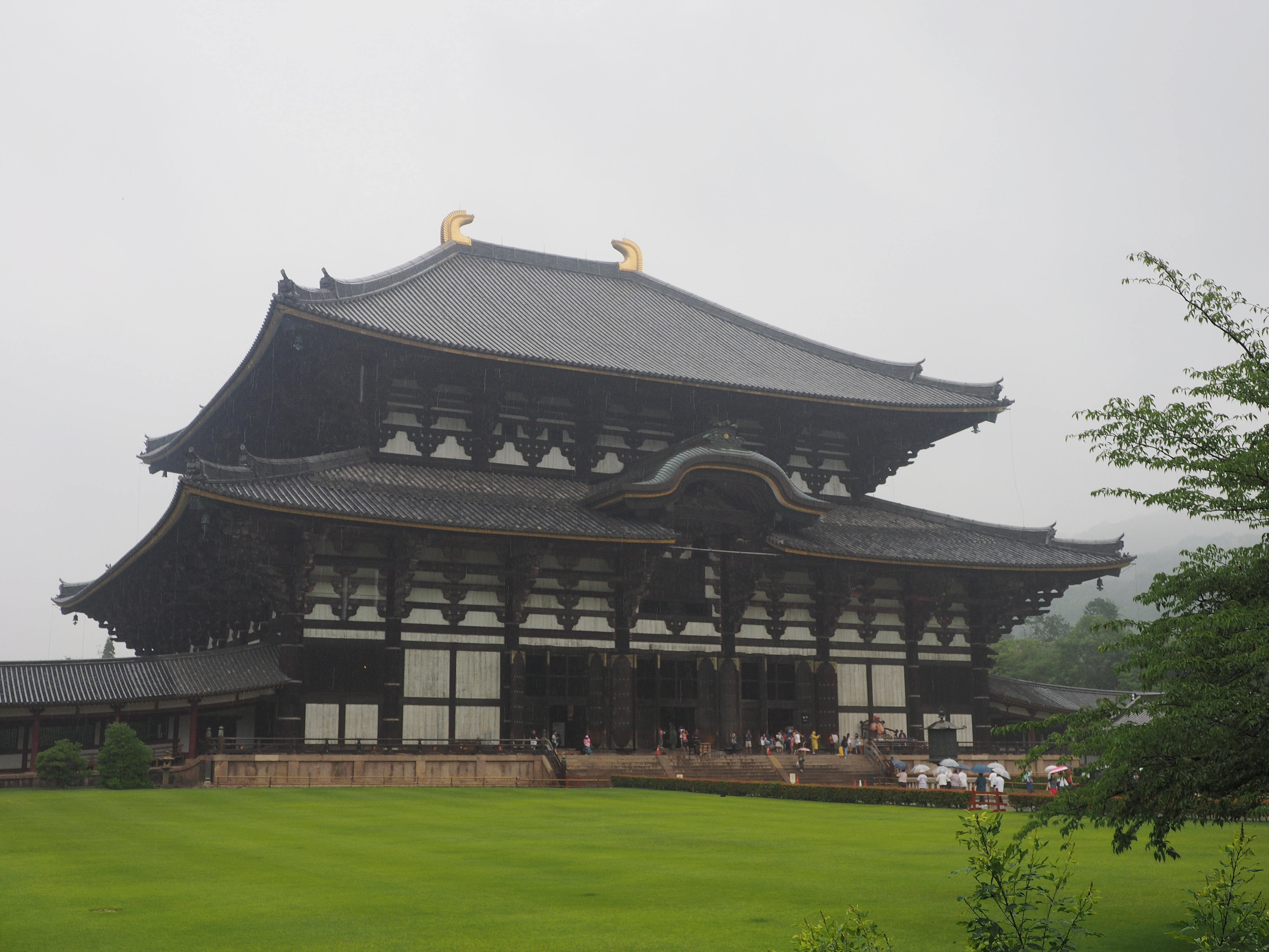 From Wikipedia, the free encyclopedia Tōdai-ji 東大寺 Daibutsu-den in Todaiji Nara02bs3200.jpg Great Buddha Hall (daibutsuden), a National Treasure Information DenominationKegon VeneratedBirushana-butsu (Vairocana) FoundedEarly 8th century Founder(s)Emperor Shōmu Address1 Zōshi-chō, Nara, Nara Prefecture CountryJapan Website Tōdai-ji (東大寺?, Eastern Great Temple),[1] is a Buddhist temple complex, that was once one of the powerful Seven Great Temples, located in the city of Nara, Japan. Its Great Buddha Hall (大仏殿 Daibutsuden?), houses the world's largest bronze statue of the Buddha Vairocana,[2] known in Japanese simply as Daibutsu (大仏?). The temple also serves as the Japanese headquarters of the Kegon school of Buddhism. The temple is a listed UNESCO World Heritage Site as "Historic Monuments of Ancient Nara", together with seven other sites including temples, shrines and places in the city of Nara. Sika deer, regarded as messengers of the gods in the Shinto religion, roam the grounds freely.